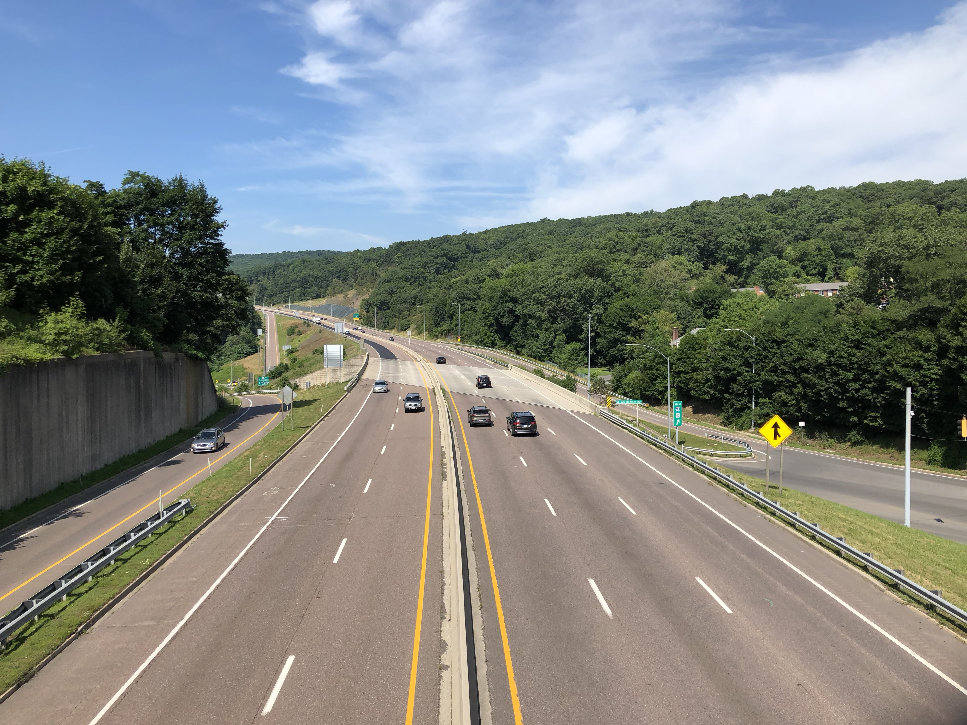 View west along Interstate 68 and U.S. Route 40 (National Freeway) at its interchange with U.S. Route 220 from the overpass for Fletcher Drive in Cumberland, Allegany County, Maryland